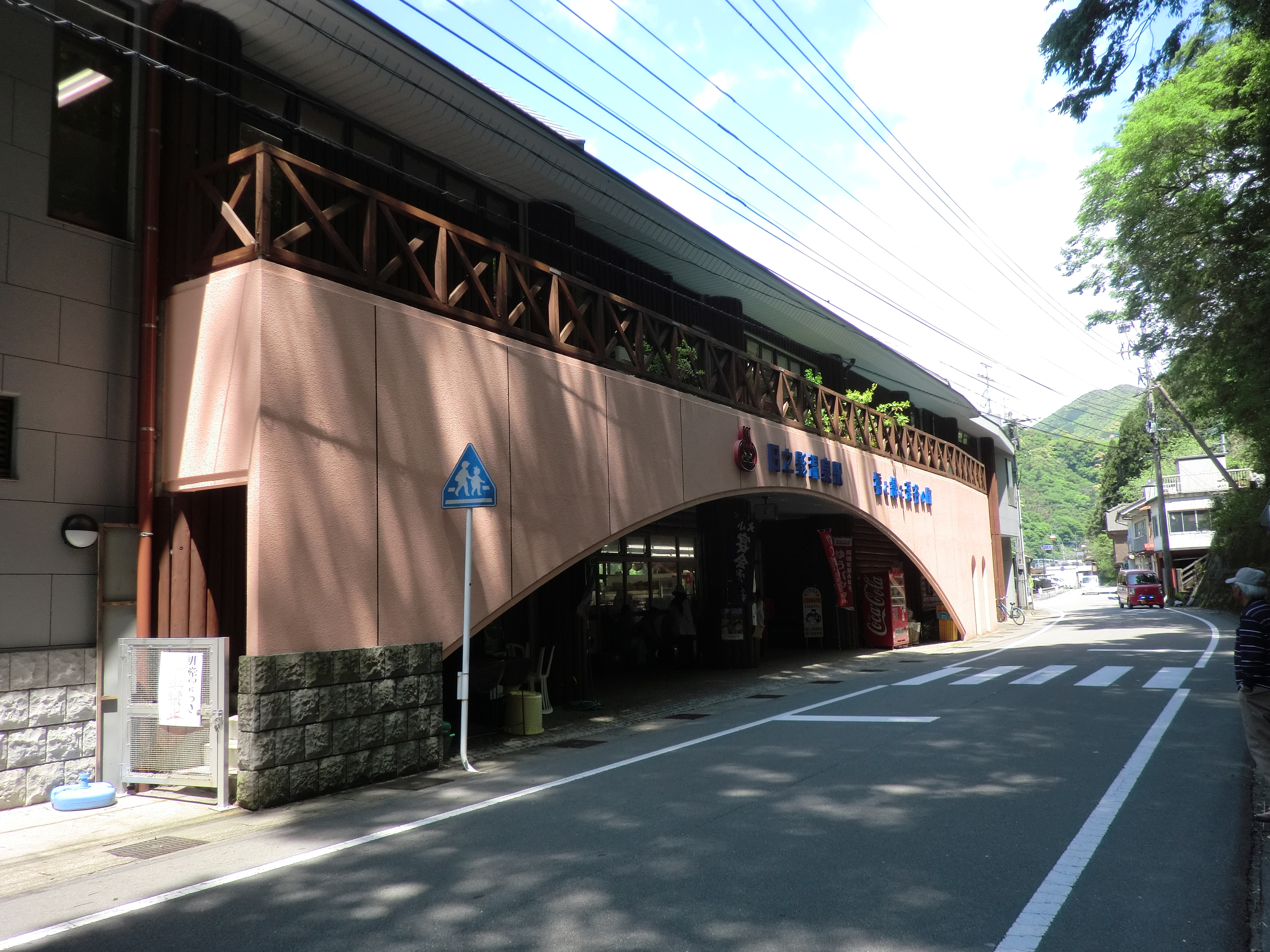 Hinokage Onsen Station